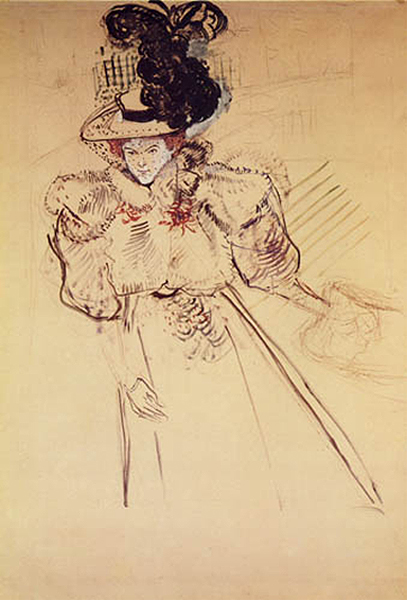 Portrait of Misia Natanson (Sert)